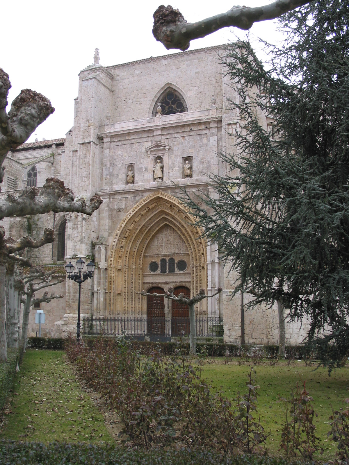 One of the entrances to the Cathedral of Palencia as seen from the Plaza de Cervantes.